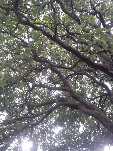 sorbus intermedia